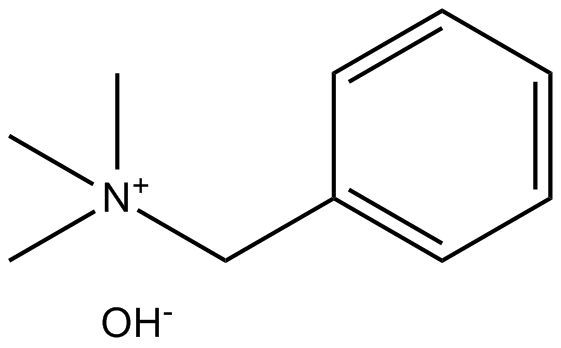 Skeletal diagram of the chemical structure of Triton B.